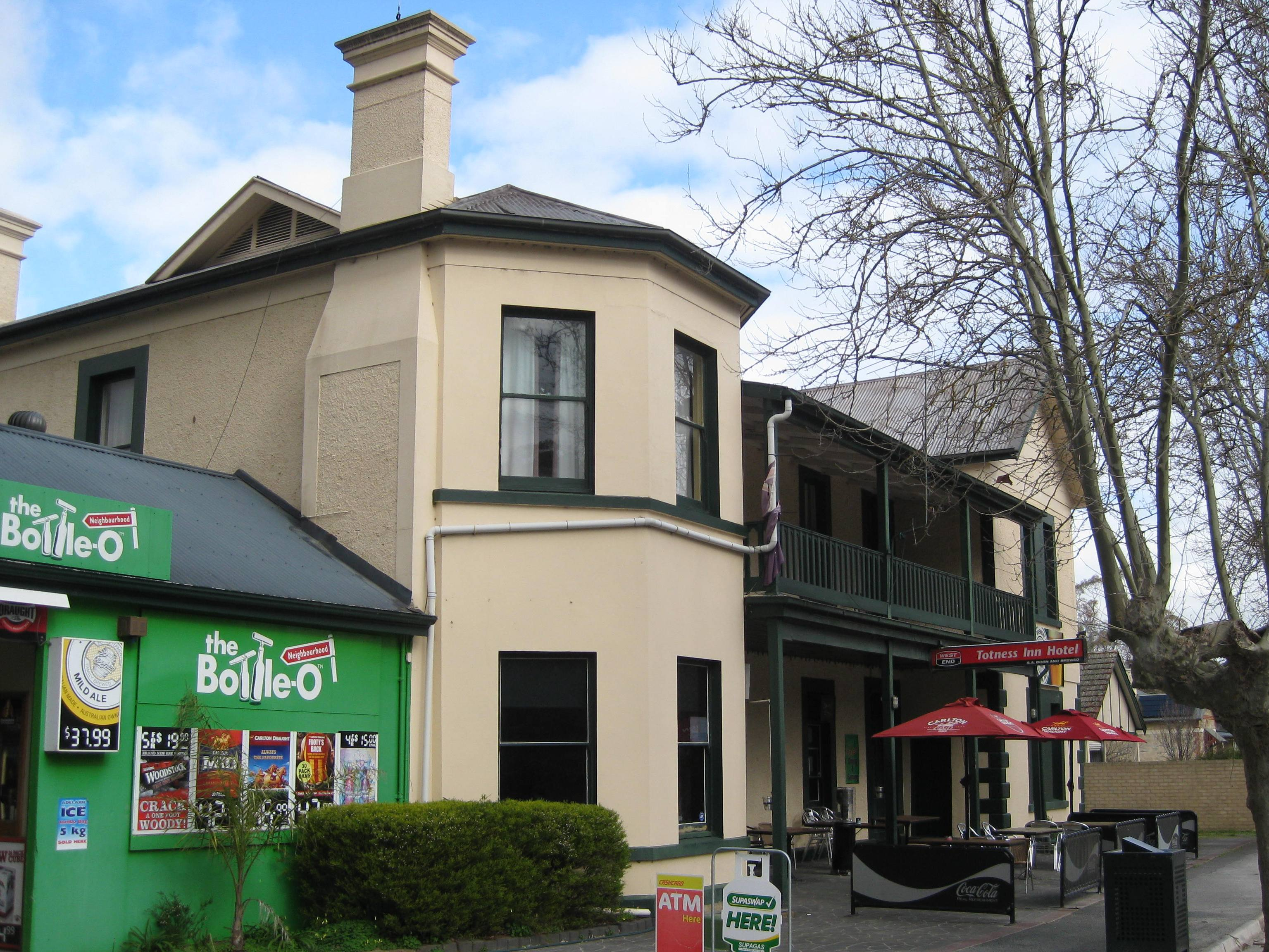 The Totness Inn Hotel, located on the main street of Mount Pleasant, South Australia.